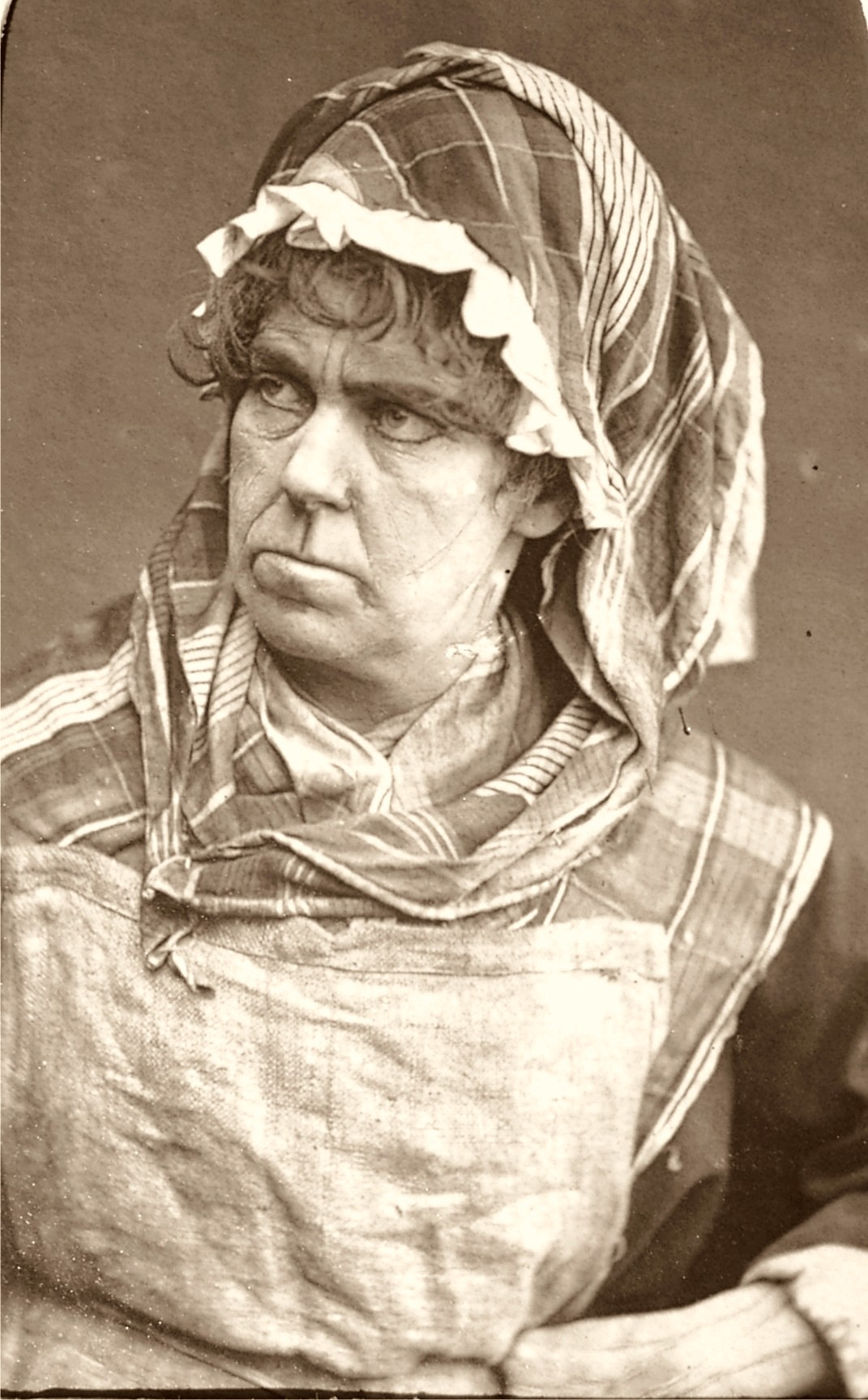 Eleanora (Ellen) Kean - born Ellen Tree - Mrs.Charles Kean 1805-1880, Irish Actress.